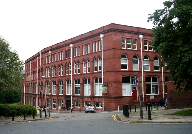 Joseph's Well - near Woodhouse Square